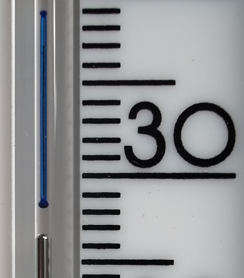 Marker in Six's thermometer showing a maximum temperature reached in a certain time span.